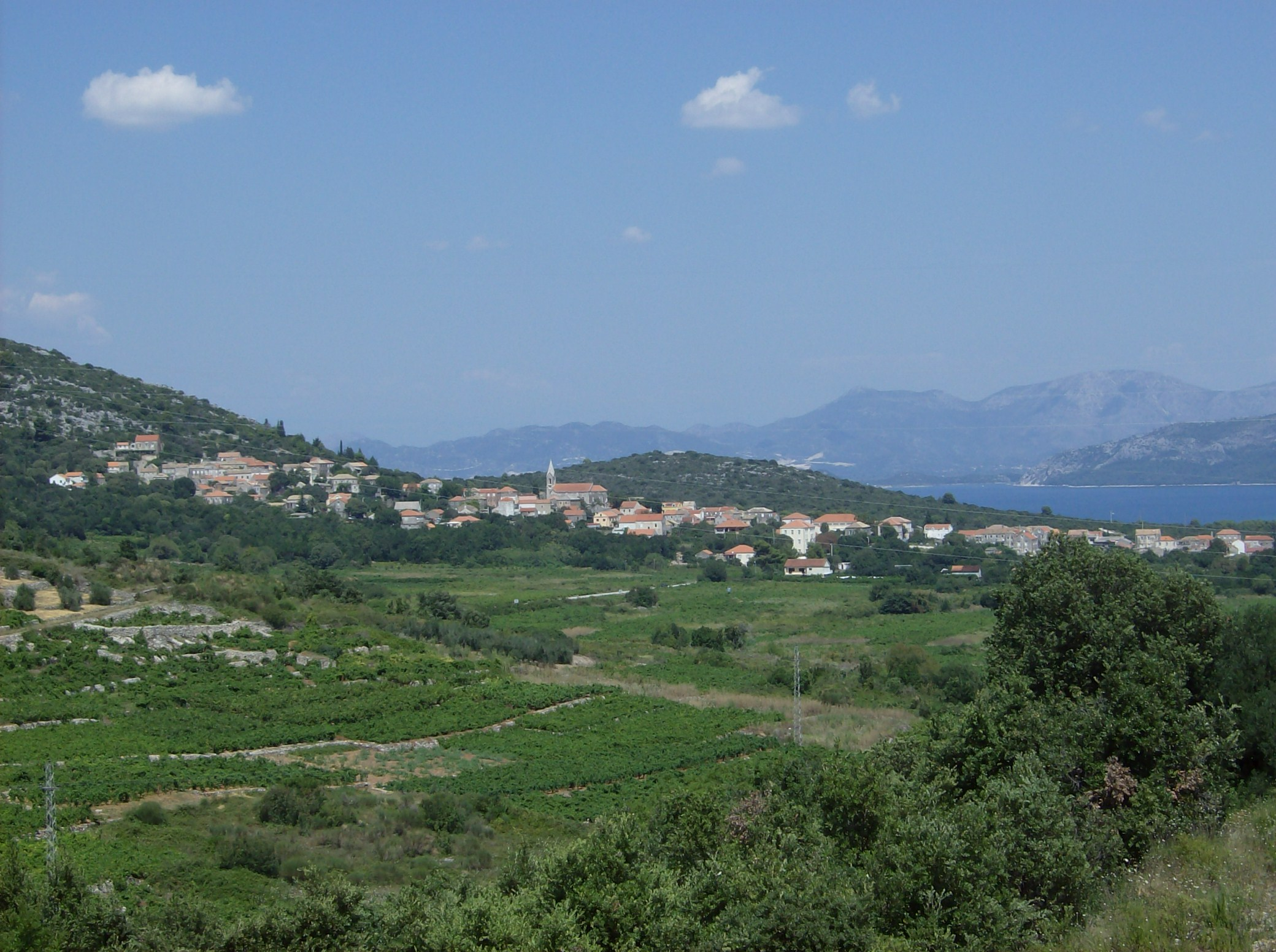 Village of Janjina on Pelješac peninsula, Croatia, Europe